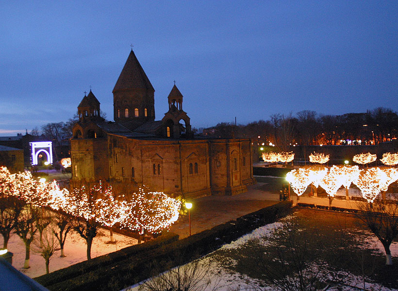 Etchmiadzin Cathedral at new year and Christmas